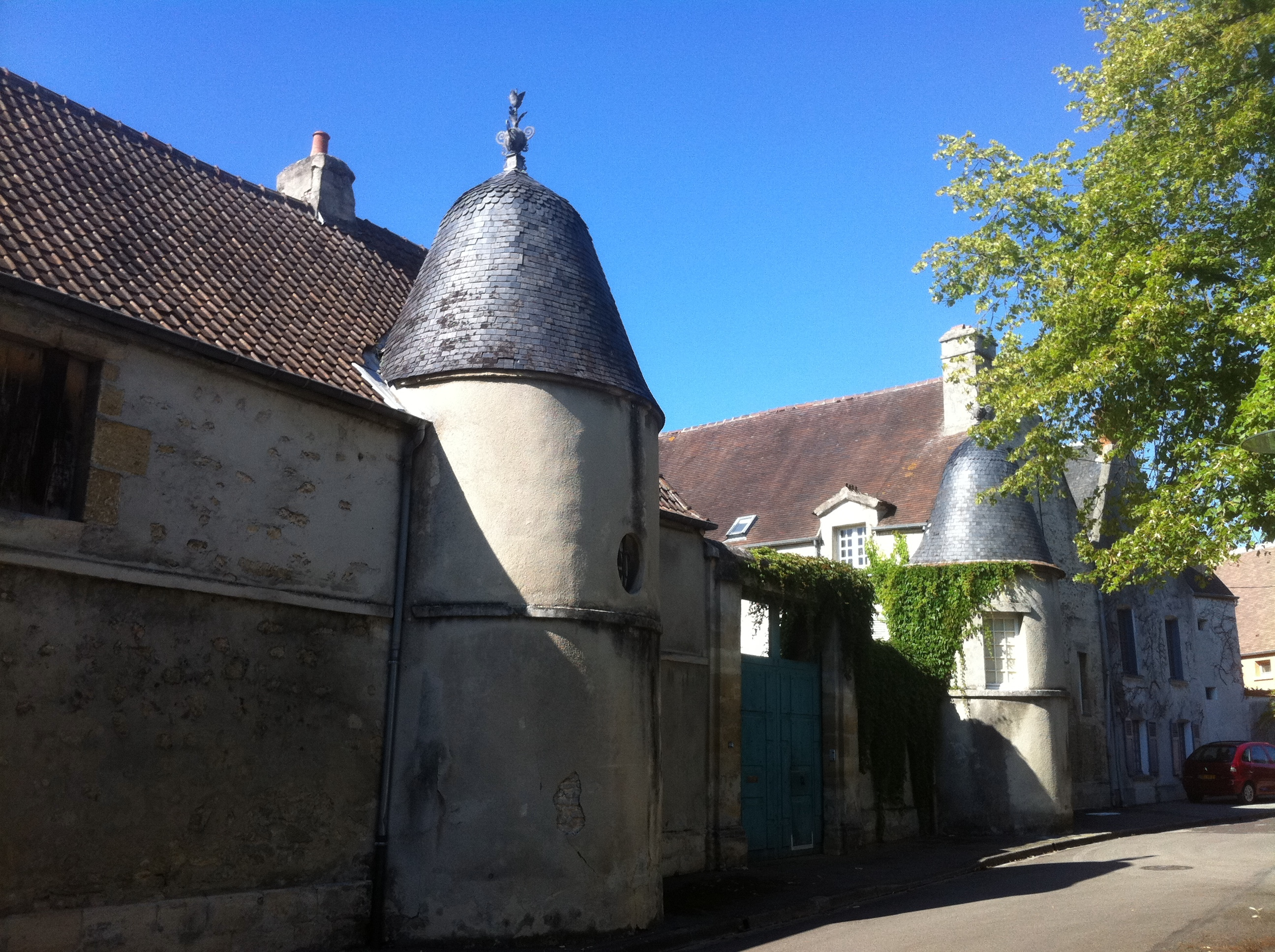 hotel particuliers with two towers built in 1651